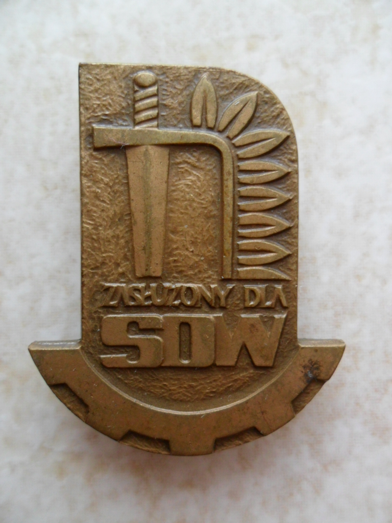 Badge, "Meritorious for SCO '